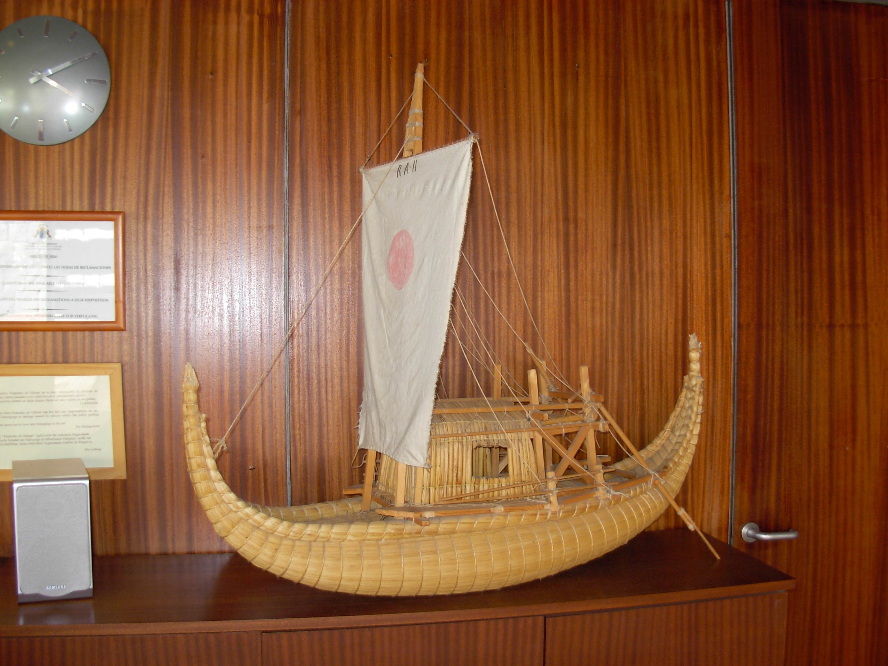 Pyramids of Güímar Museum, Tenerife. Model of Thor Heyerdahl's Ra II.